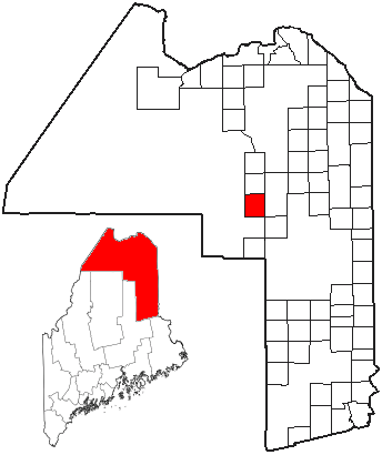 Adapted from U.S. Census Bureau maps (American FactFinder) and Wikipedia's ME county maps by Bumm13.